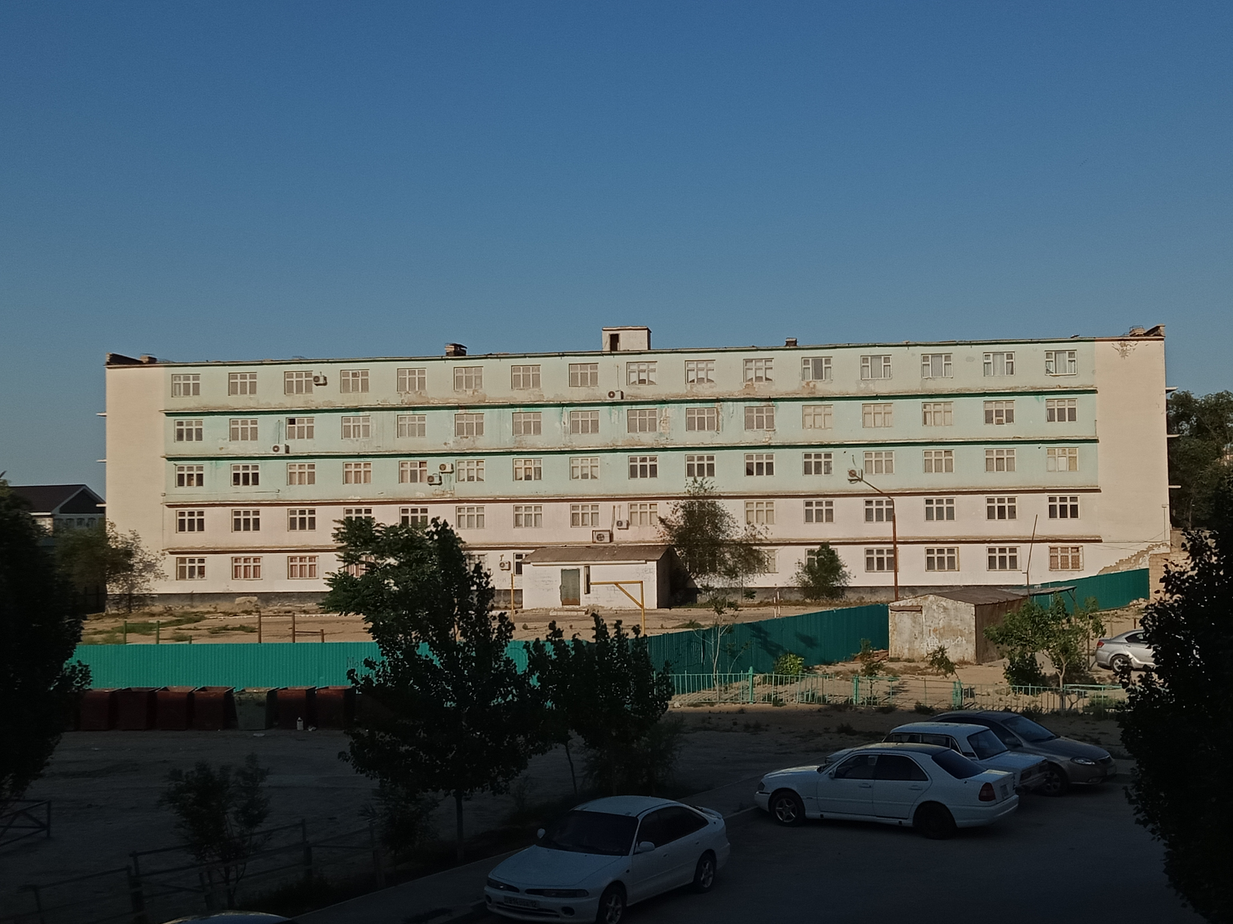 College of Medicine in Zhanaozen